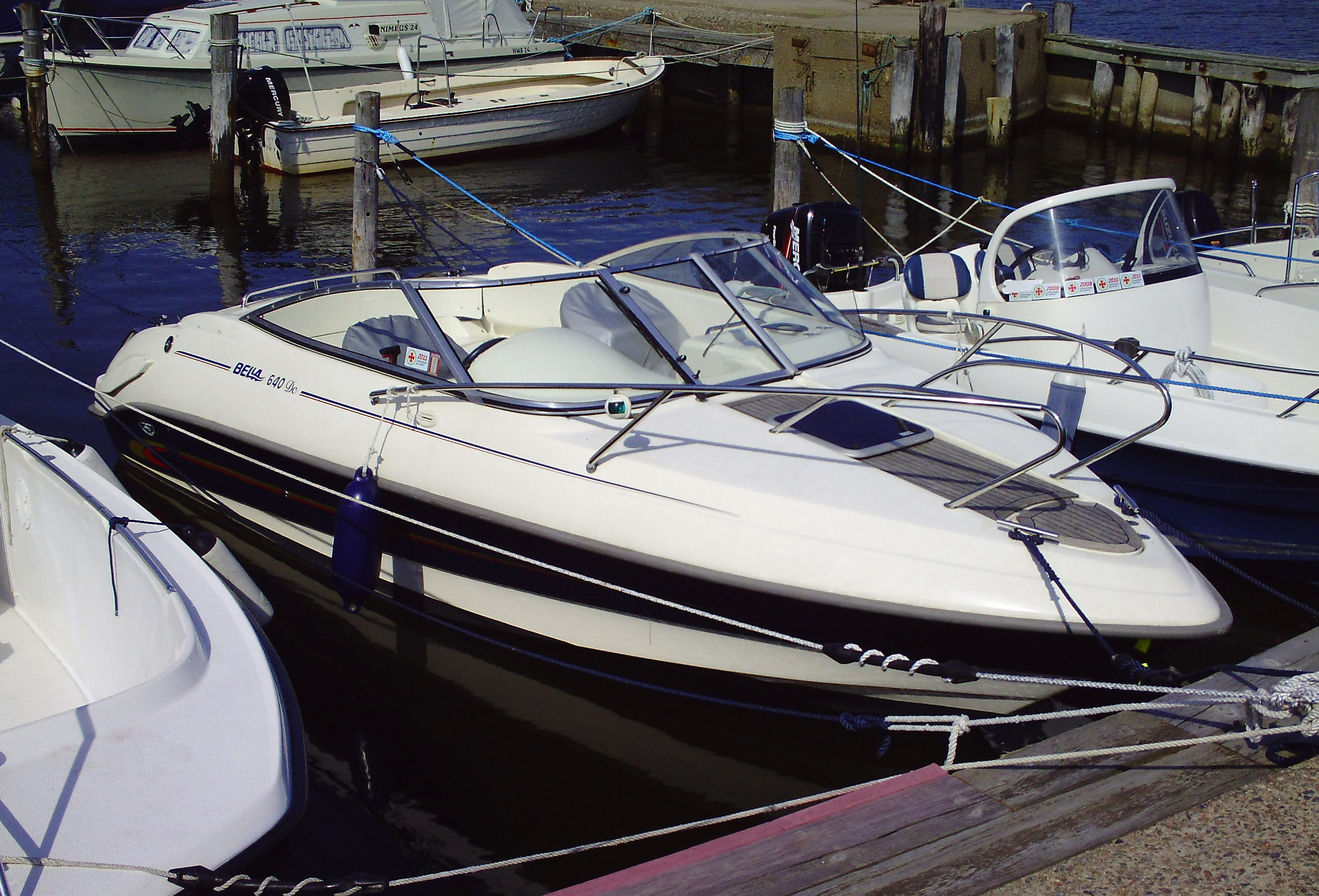 A Bella 640 Dc.